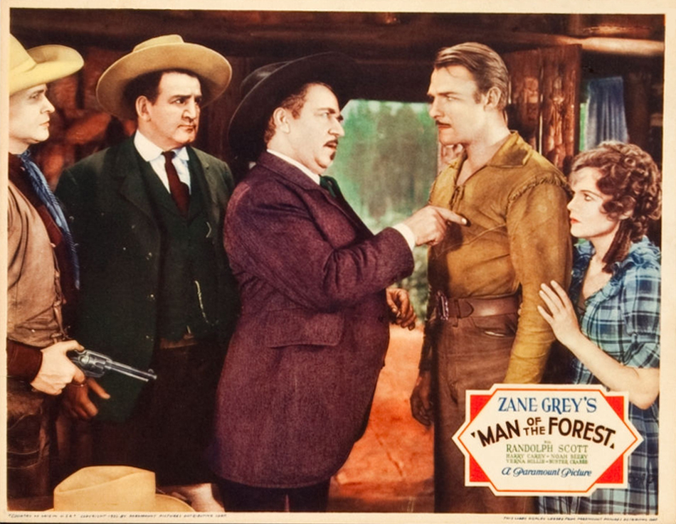 Man of the Forest (1933), directed by Henry Hathaway, with Randolph Scott and Verna Hillie